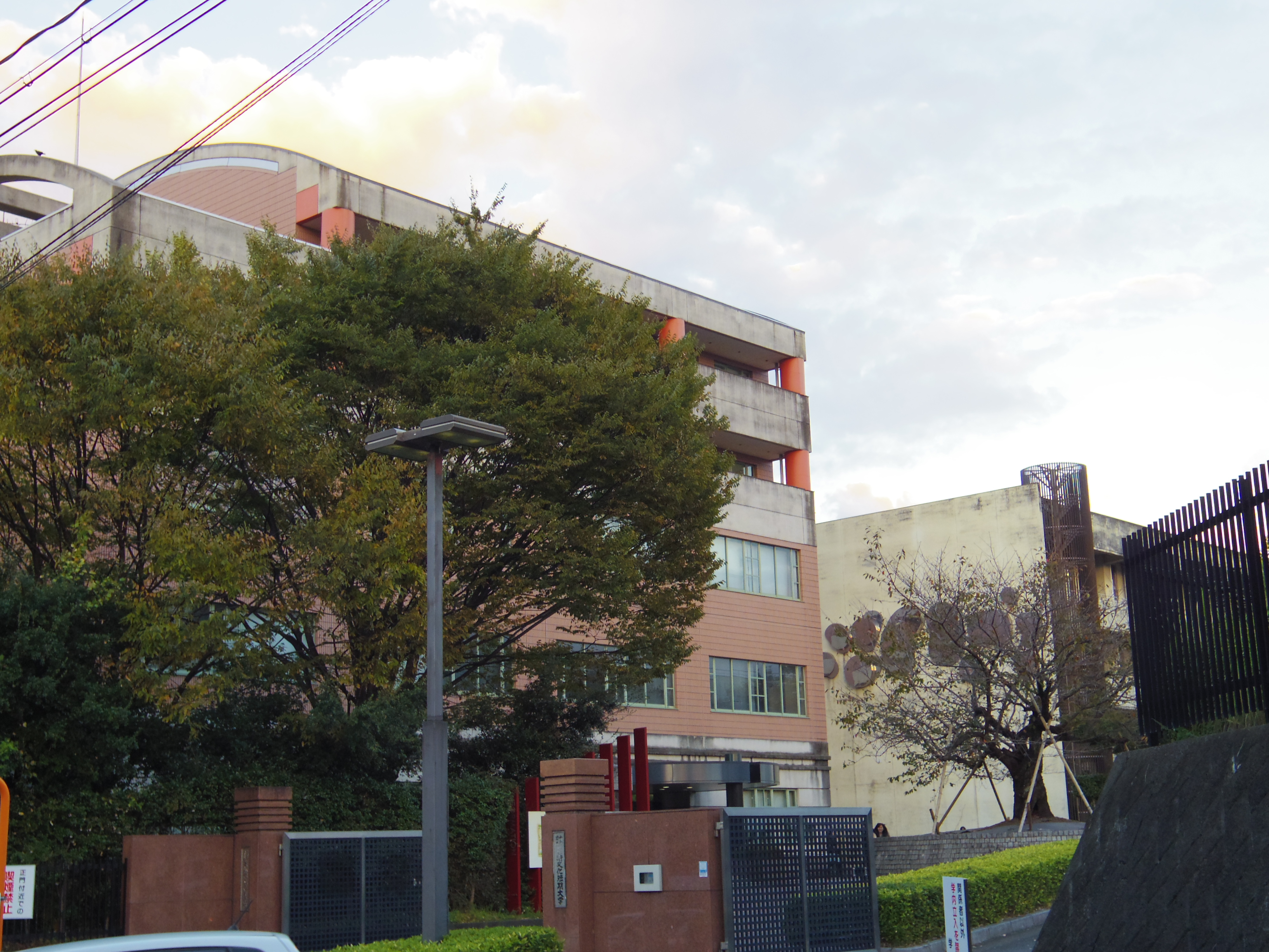 Main entrance to Oita Prefectural College of Arts and Culture located in Oita, Oita Prefecture, Japan.